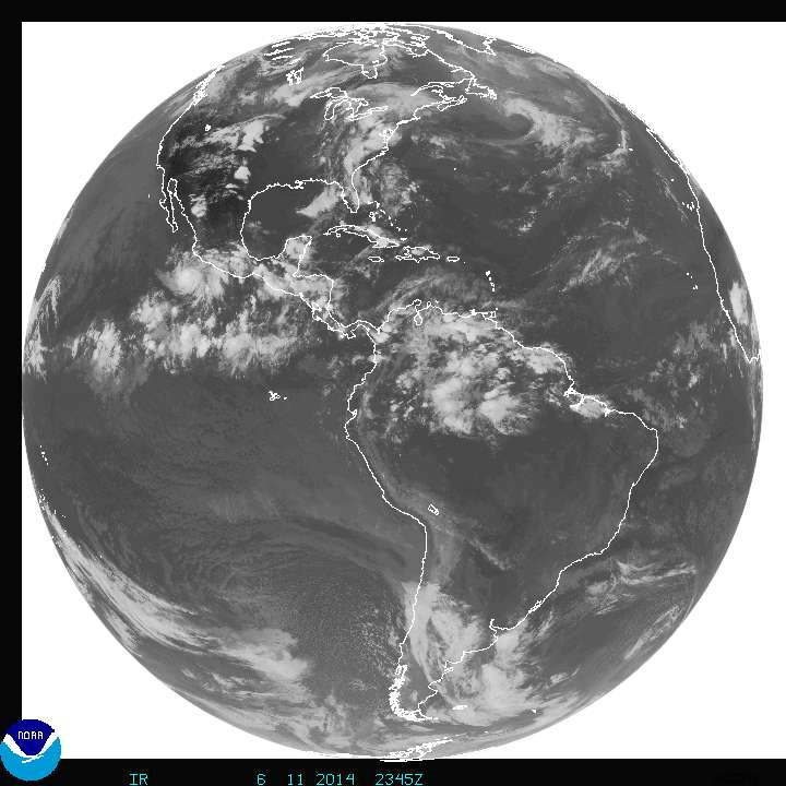 GOES Full Disk Western Hemisphere. GOES Satellite Image - JUN-11-2014